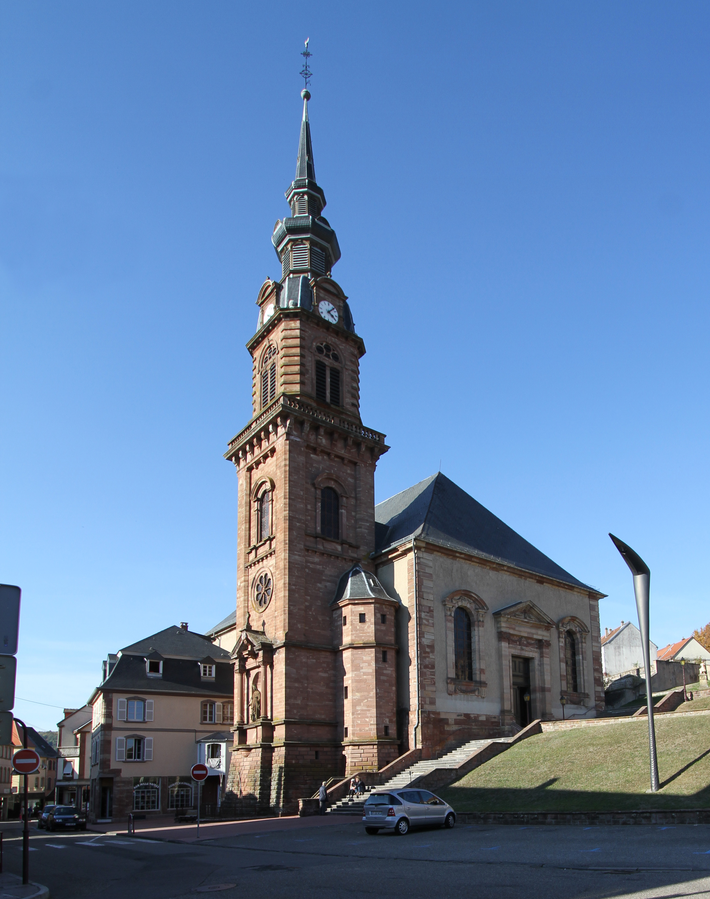 Church of Saint Catherine in Bitche